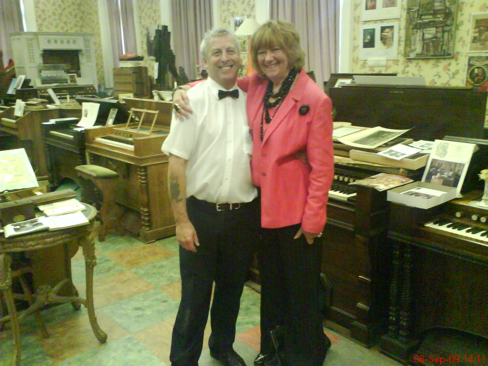 Pam and Phil Fluke (Reed Organ & Harmonium Museum, Victoria Hall, Saltaire, England) for many years collect free reed musical instruments.